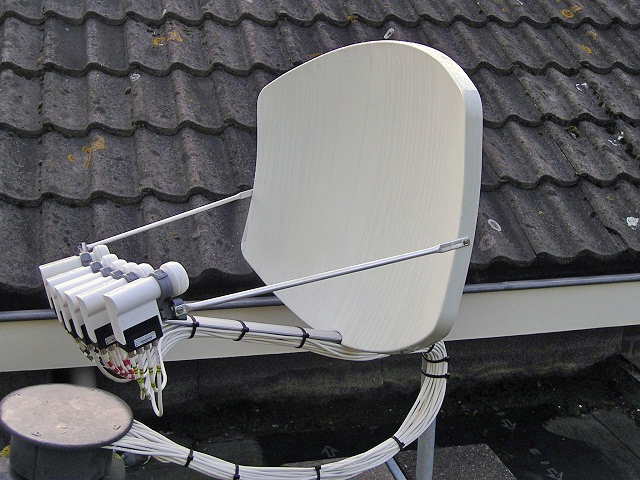 torus satellite dish. Appears to be (related to) the Cahors / Visiosat bisat series.